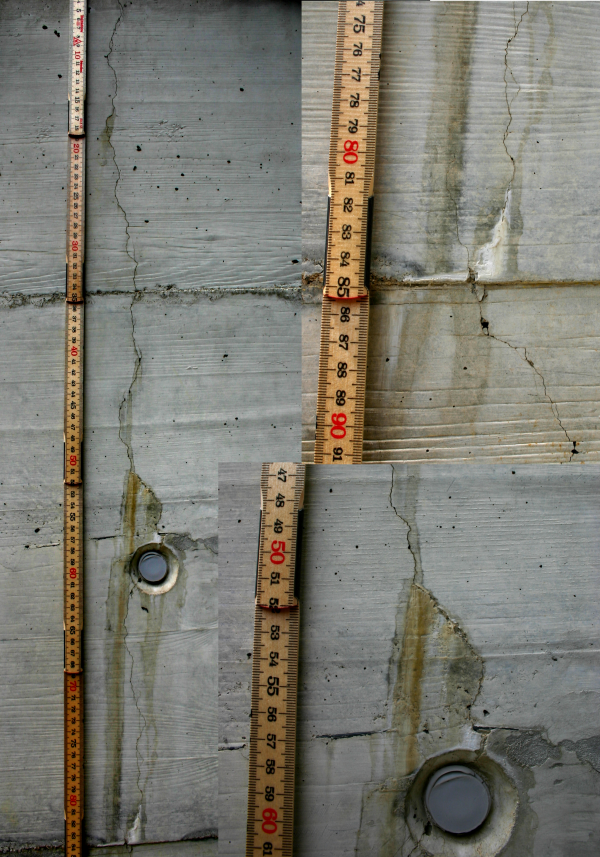 Shrinkage cracks in reinforced concrete